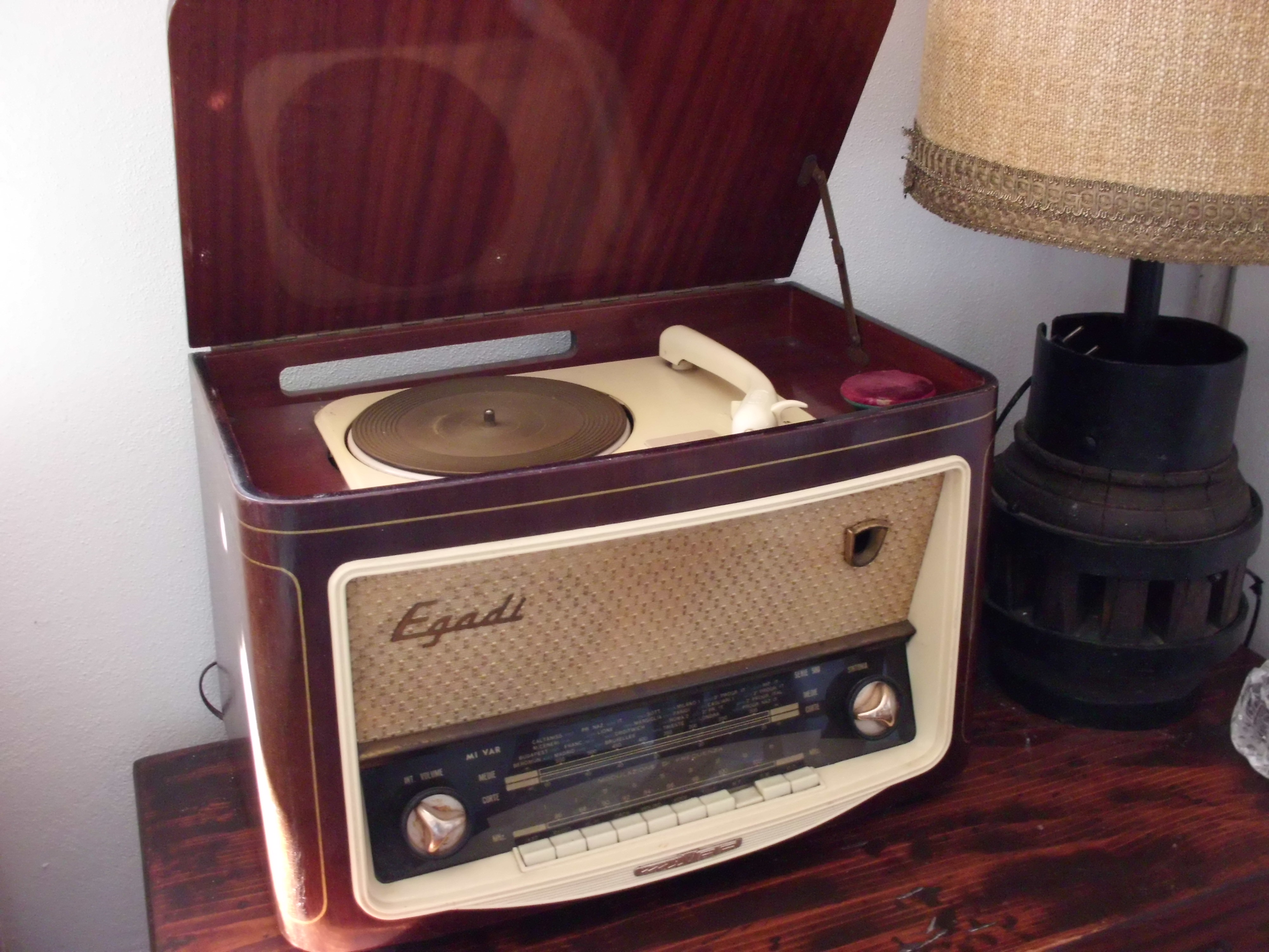 The Italian Egadi (chassis UCM583) radio by Mivar was the penultimate generation of tube radios, produced in 1958-1959. The company continued with tube radios into the 1960s.